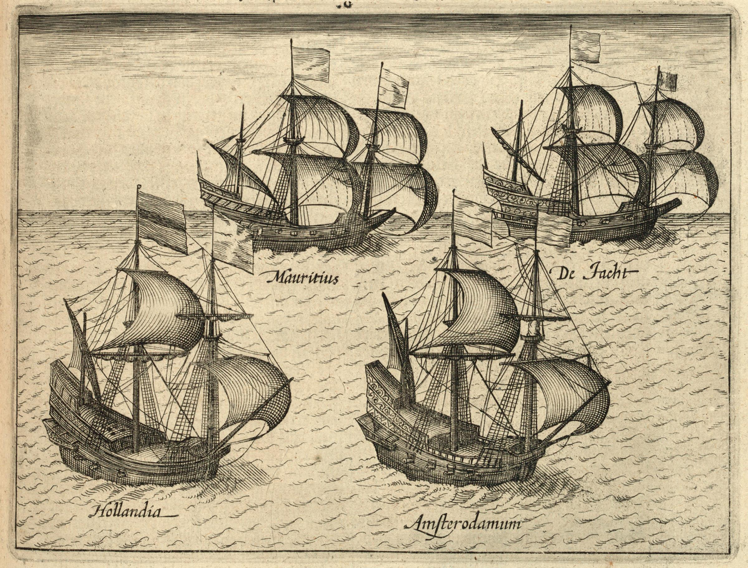 Vessels taking part in the first voyage led by De Houtman. Mauritius. De Jacht. Hollandia. Amsterodamum.